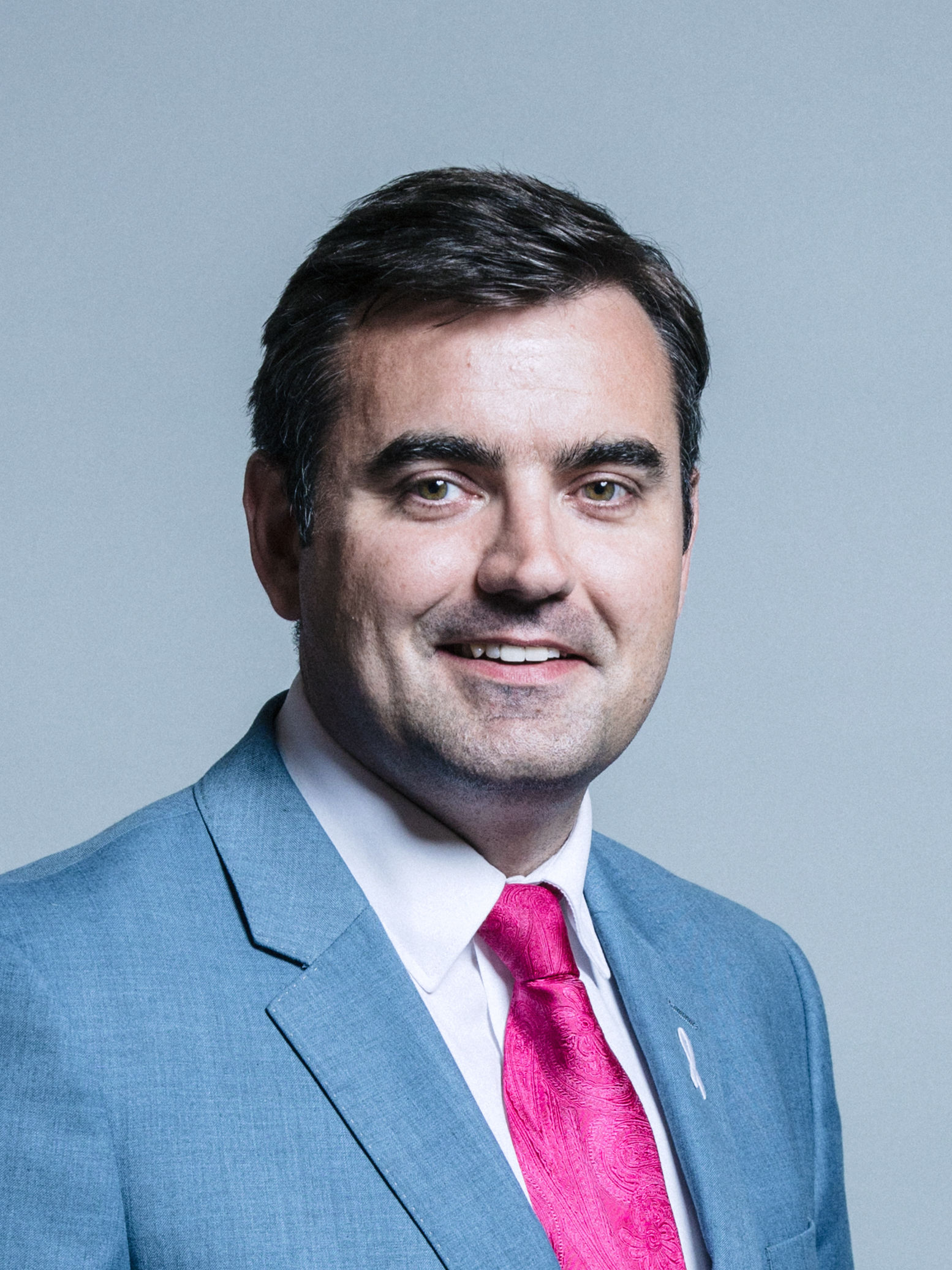 Official portrait of Gavin Newlands